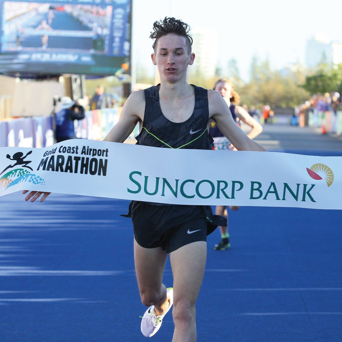 Anstey winning 5km event at the Gold Coast in 2016